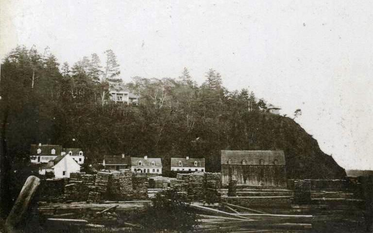 Photograph, Redclyffe Cottage, residence of Joseph Bell Forsyth, near Cap Rouge, QC, about 1910, Silver salts on paper mounted on card - Gelatin silver process - 9.2 x 12.4 cm